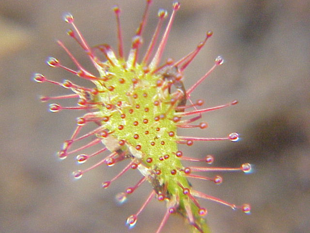 Species: Drosera intermedia Family: Droseraceae Image No. 1